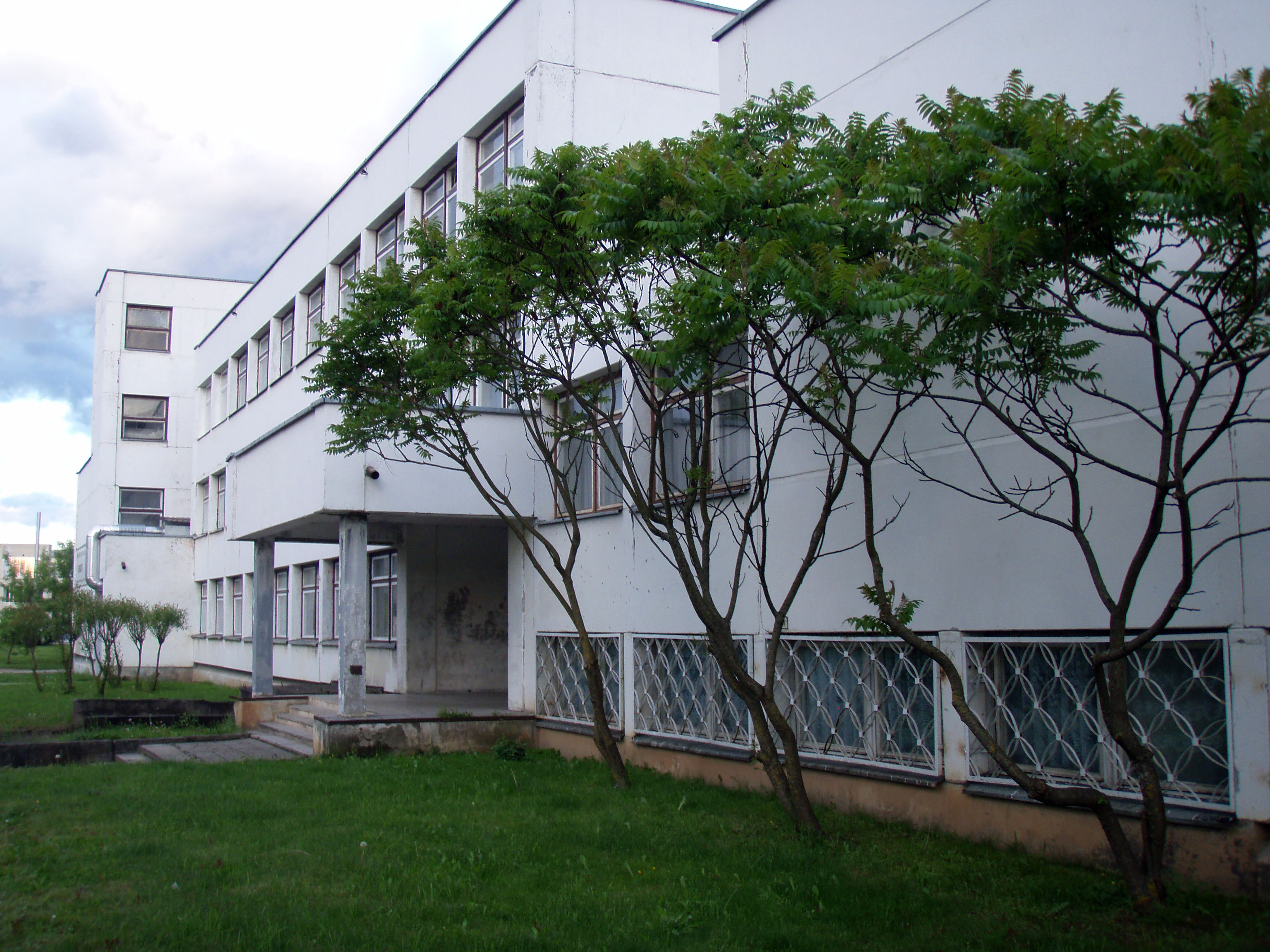 Vilnius Žemynos school, Vilnius, Lithuania